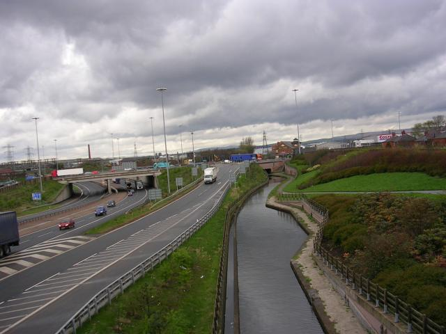 Canal and Motorway, Chadderton, Oldham. For a few hundred metres the M60 Motorway and the Rochdale Canal run side by side. Although separated by only a few metres in space they are separated by about 200 years in time, as this section of the canal (part of Britain's first trans-Pennine canal route) opened in 1799.